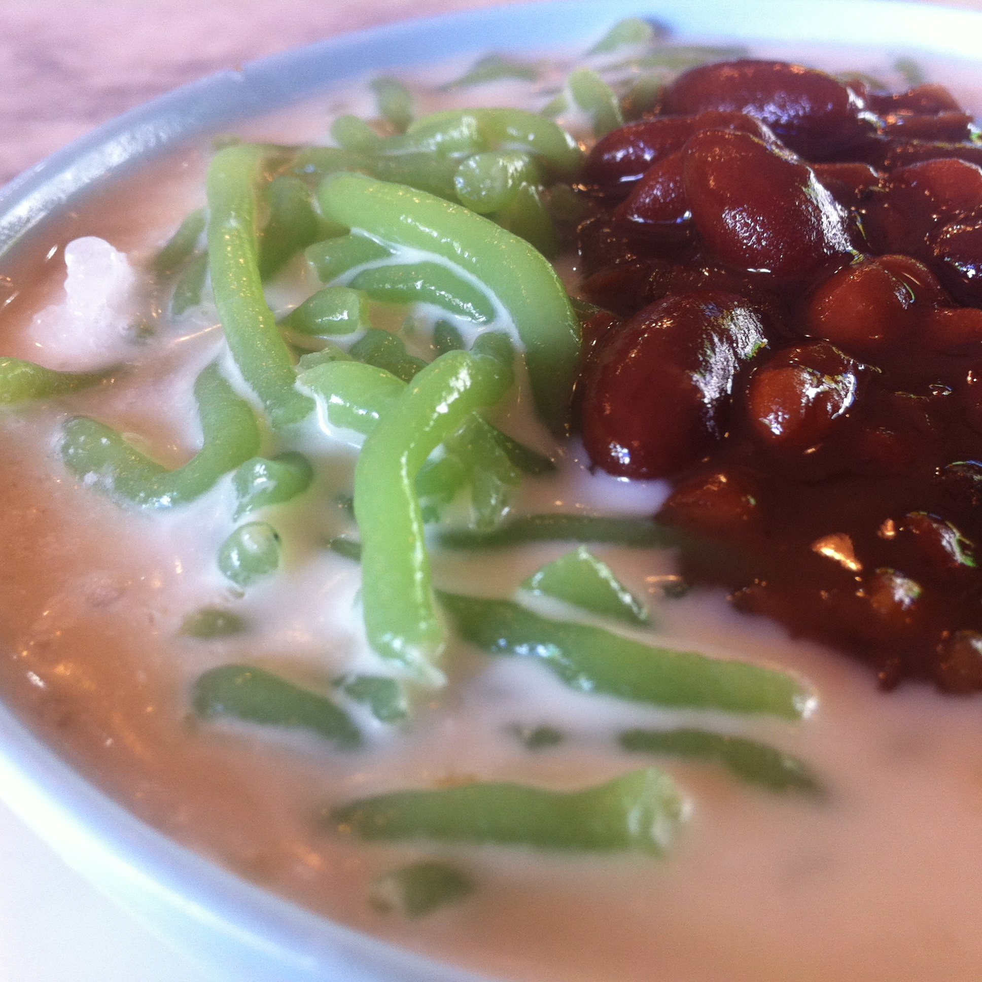 The Famous Penang Cendol (from the shop of the same name)